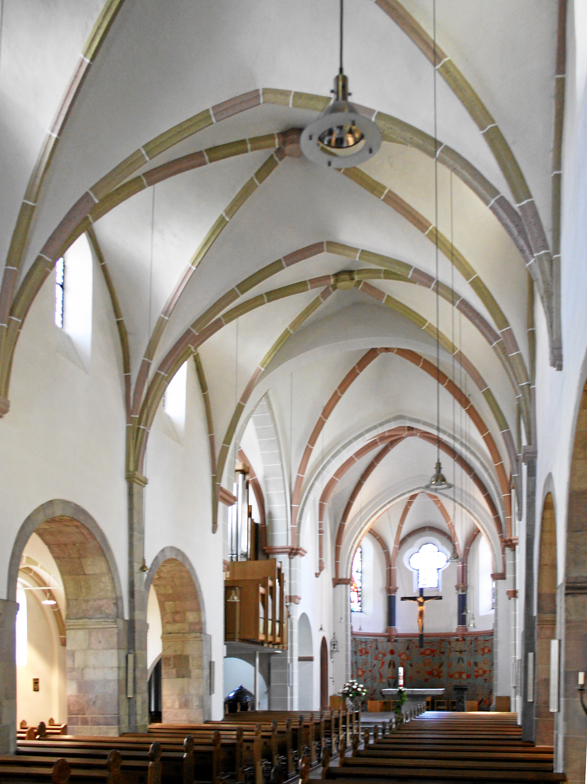 Erkrath, Germany. Roman-catholic church Saint John the Baptist, interior towards East.